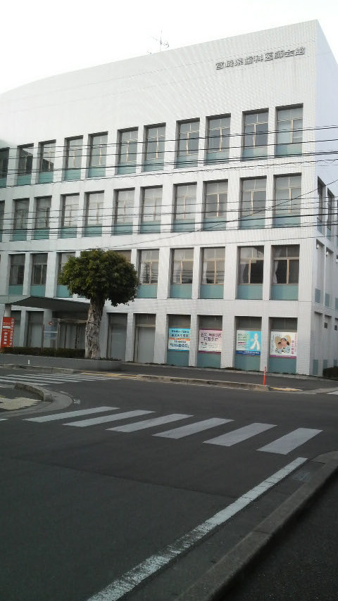 Japan Dental Association in Miyazaki